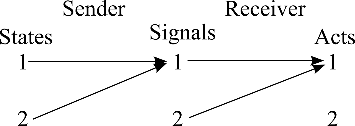 An illustration of a total pooling equilibrium in the Lewis signaling game -- a game used to study language in game theory.